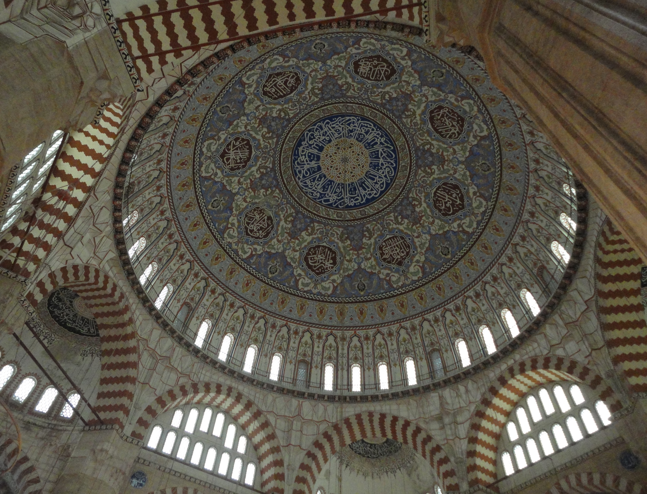 Selimiye Mosque, Edirne, Turkey. Picture from the dome inside.